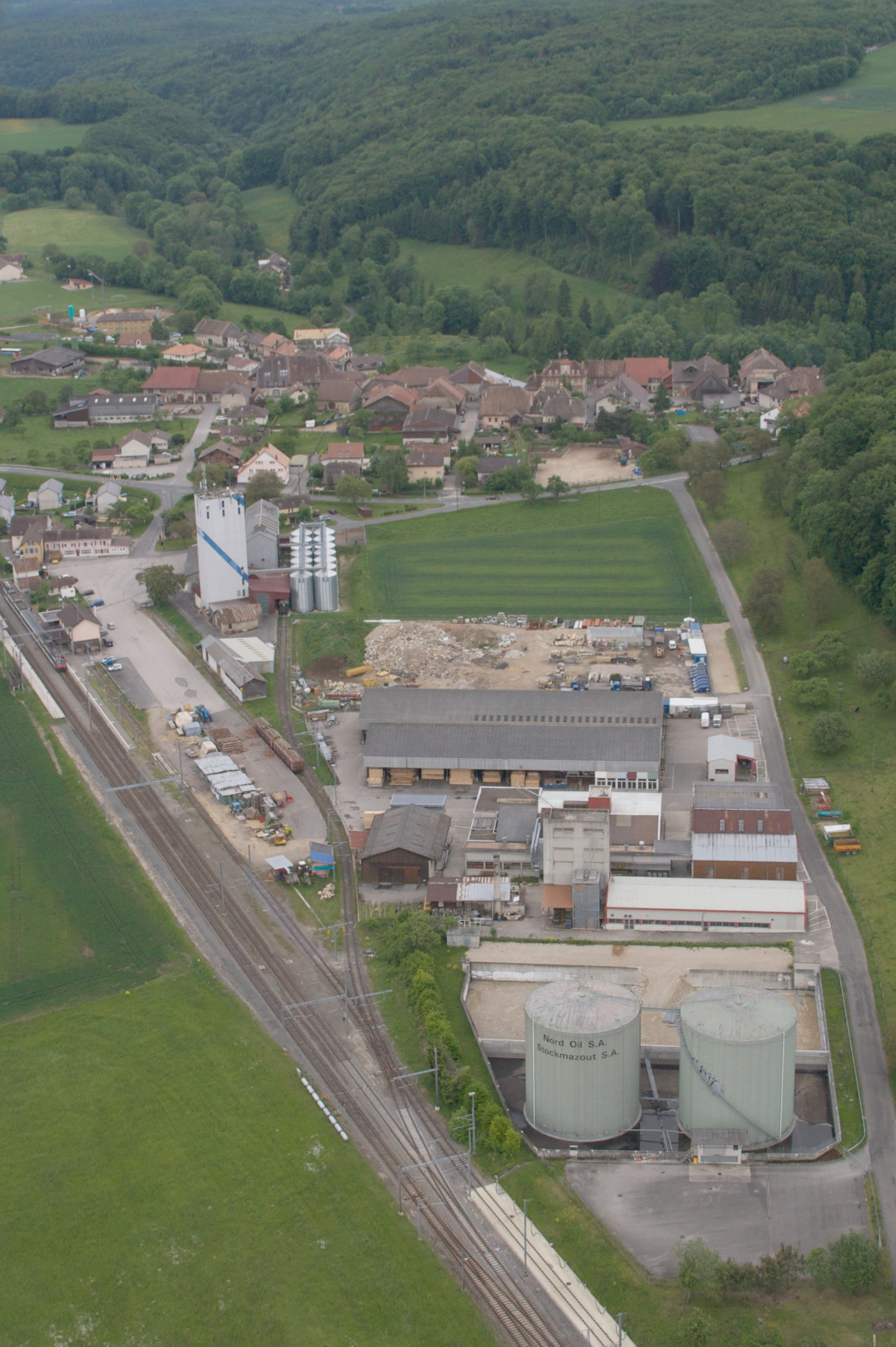 The village of Croy, the Croy-Romainmôtier train station (with train), and the sawmill, where my dad worked for many years.